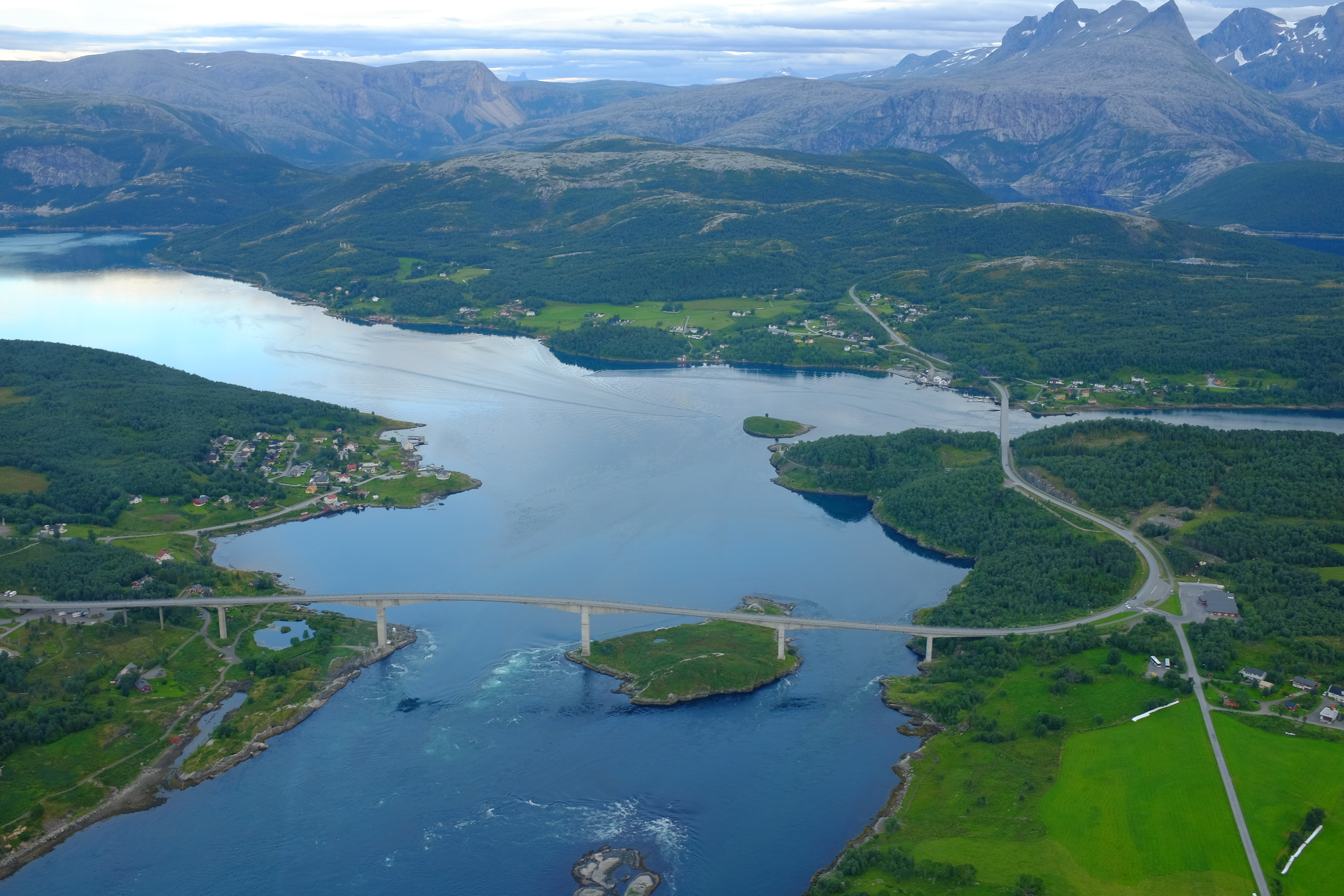 Saltstrømen in Bodø, Nordland, Norway. Saltstraumen is a small strait with the strongest tidal current in the world.